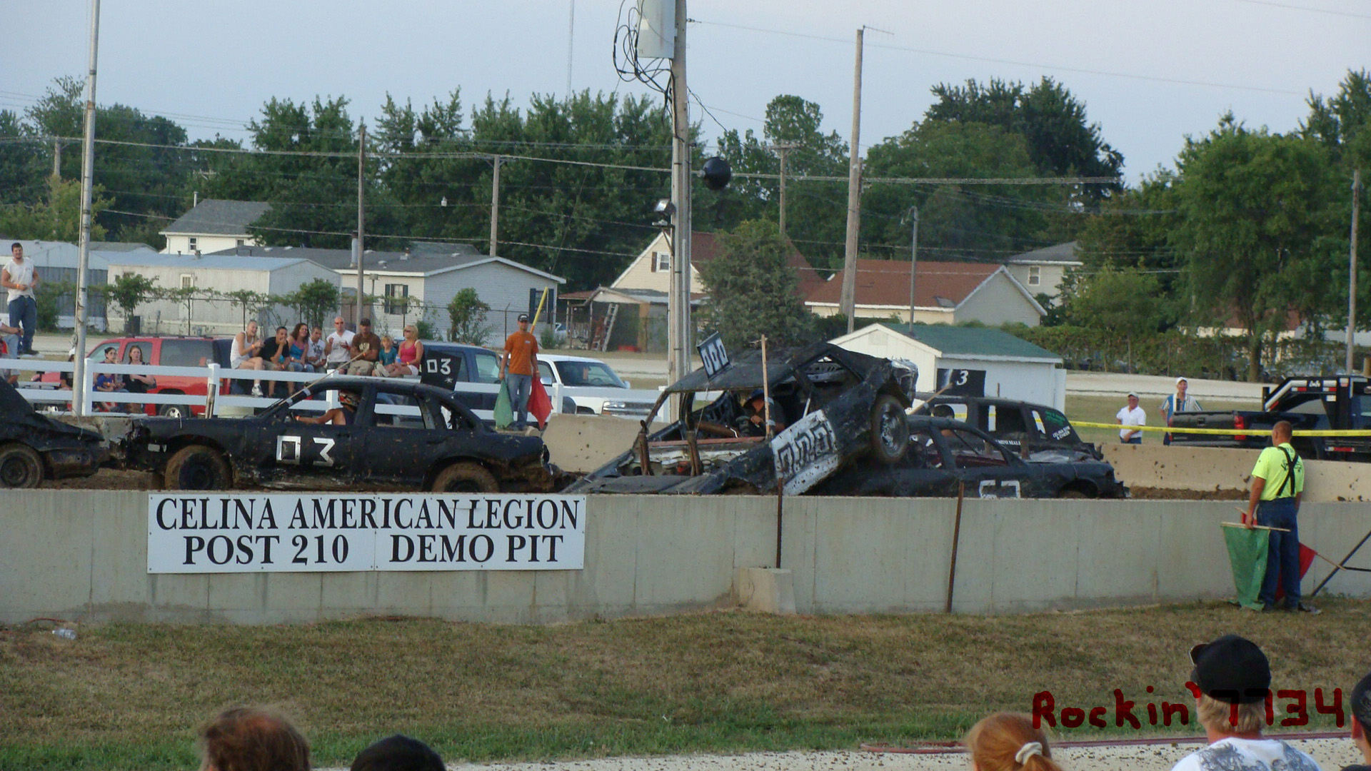 Known for the hardest hits in the area.